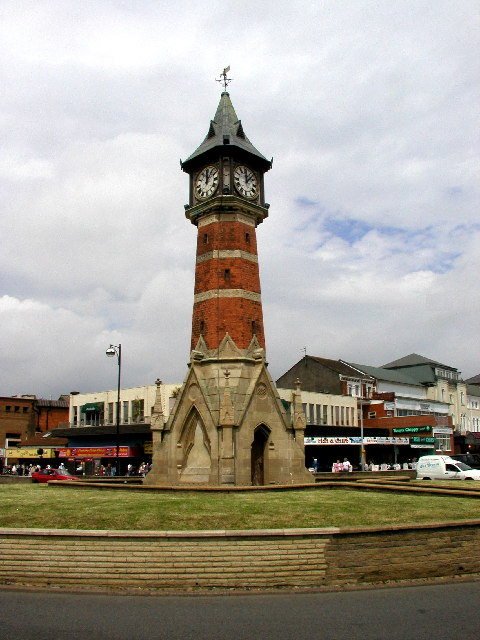 Skegness Clock Tower. Situated in the middle of a roundabout at MR: TF568631.